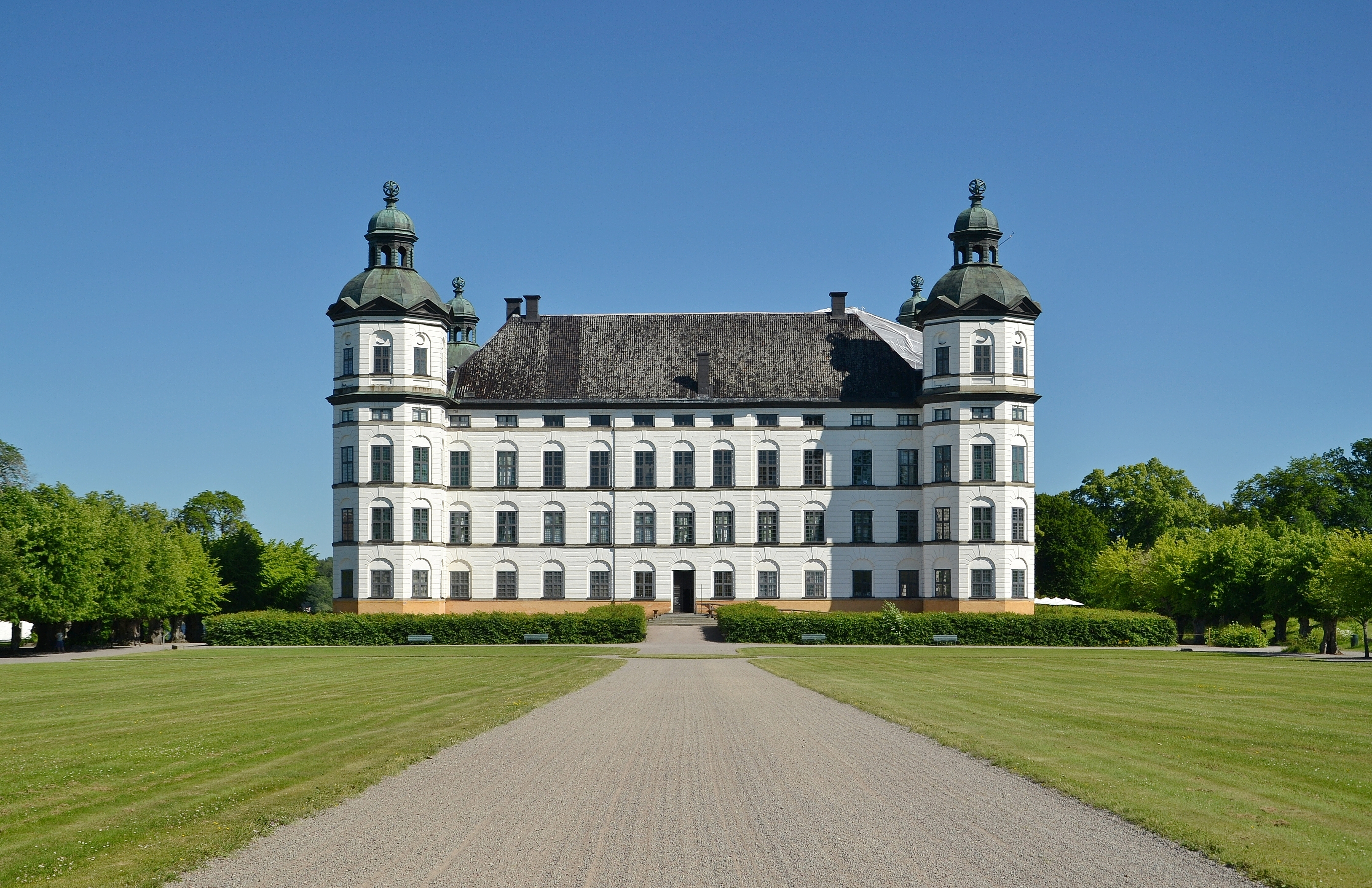 Skokloster castle, Sweden